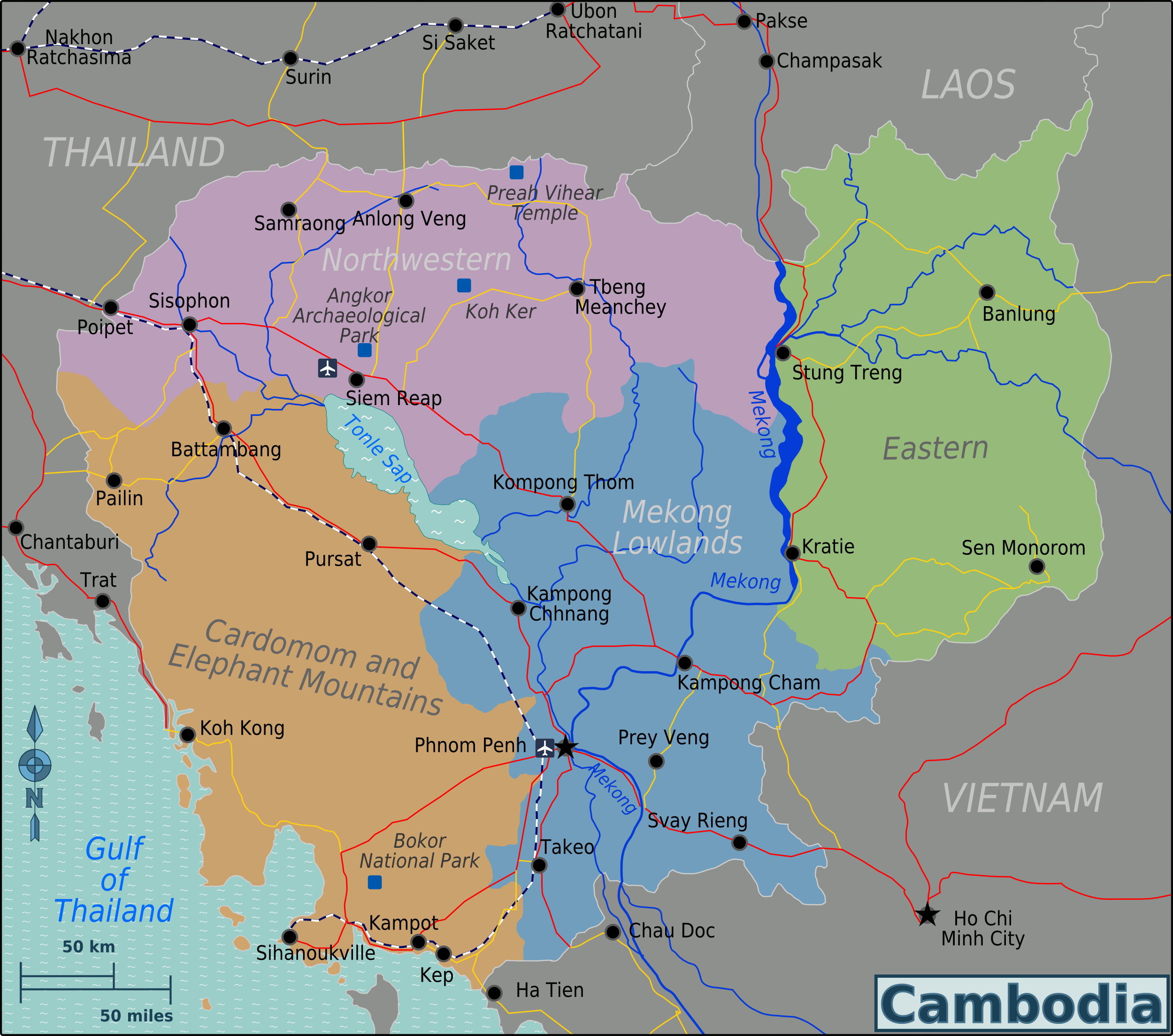 Map of Cambodia with regions colour coded (Wikivoyage regional scheme), English version